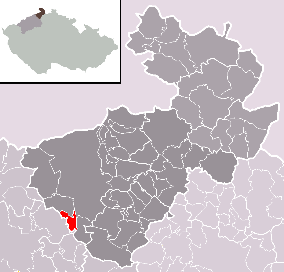 Location of Dobkovice municipality within Děčín District and administrative area of Děčín as a Municipality with Extended Competence.